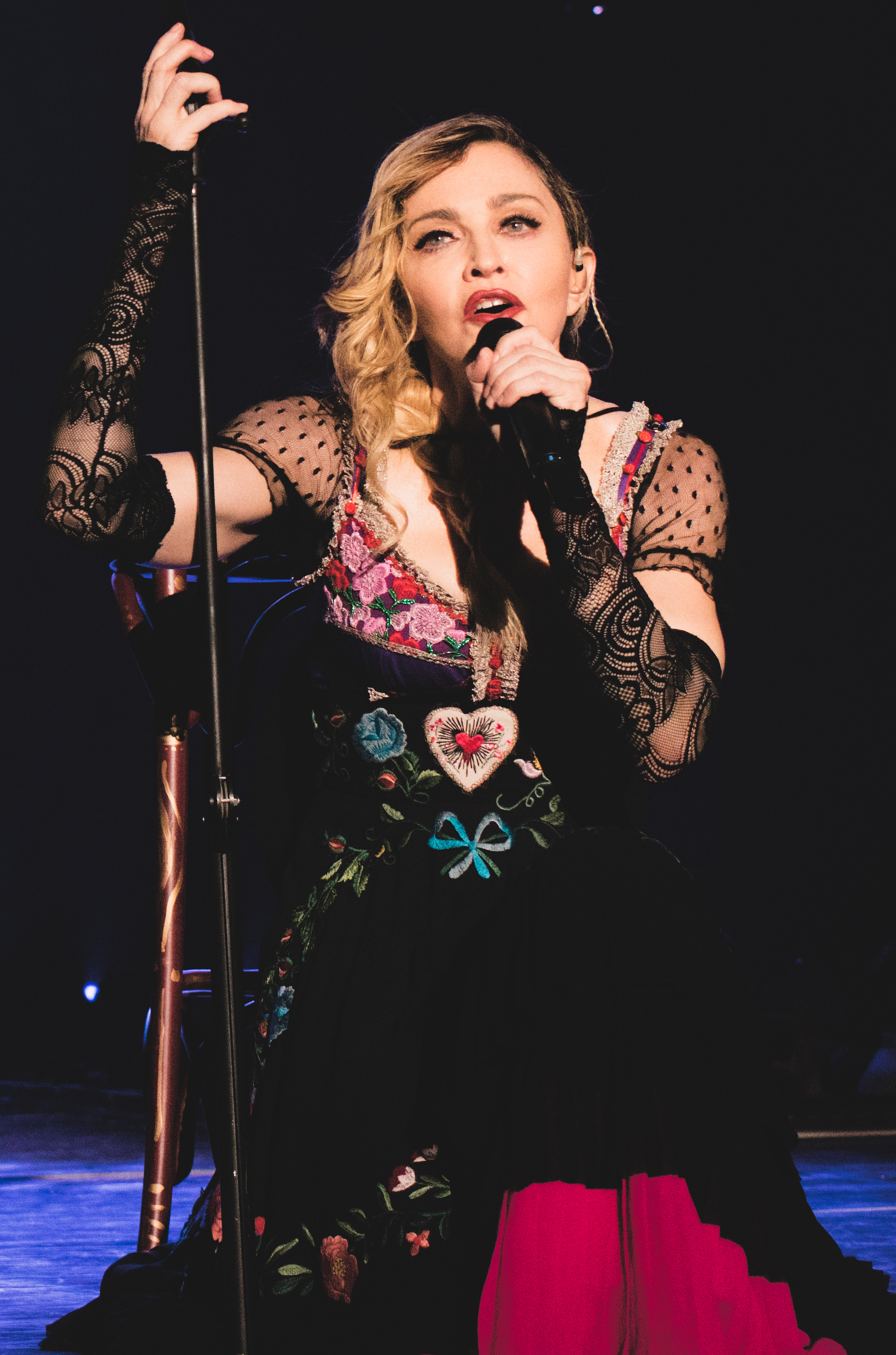 Ghosttown